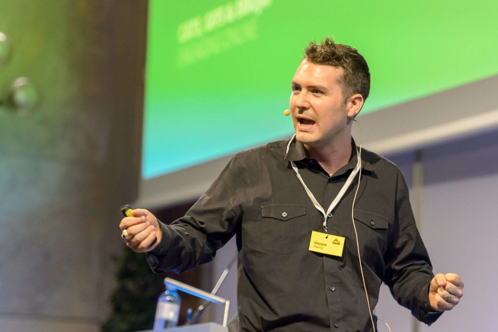 Vincent Harris Speaking on "Cats, Gifs & Emojis: Engaging Online"